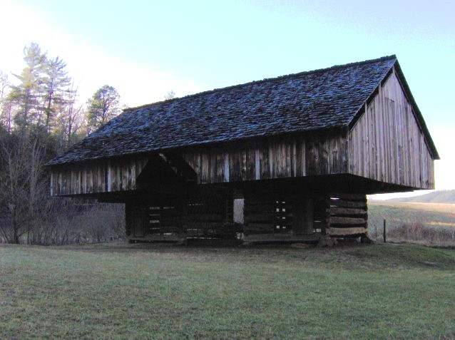 Double-cantilever barn at the Tipton Place in Cades Cove, GSMNP, in East Tennessee. The cantilever barn design, which is Western European in origin, is common throughout Southern Appalachia but rare elsewhere in North America.